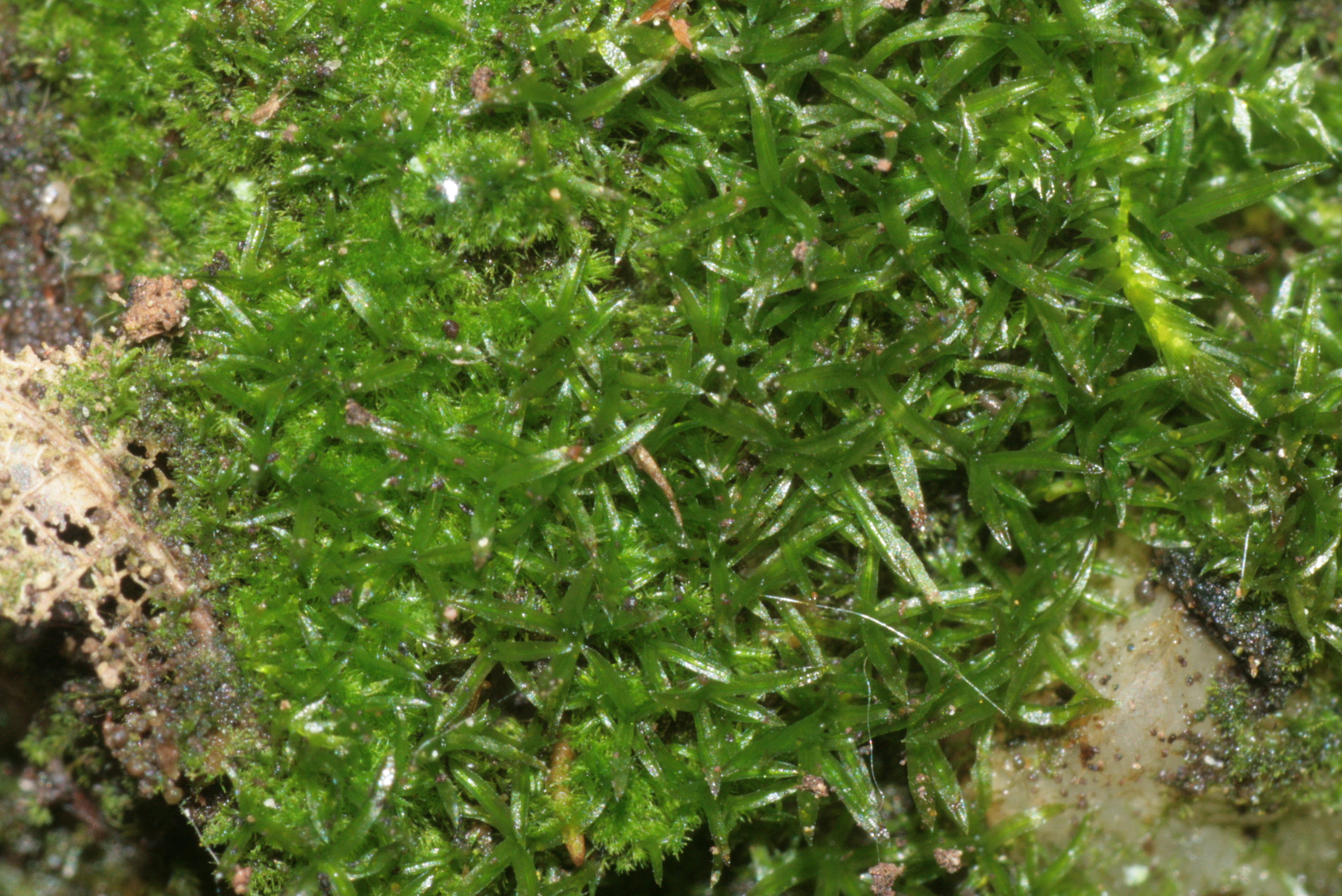 Rhabdoweisia crispata